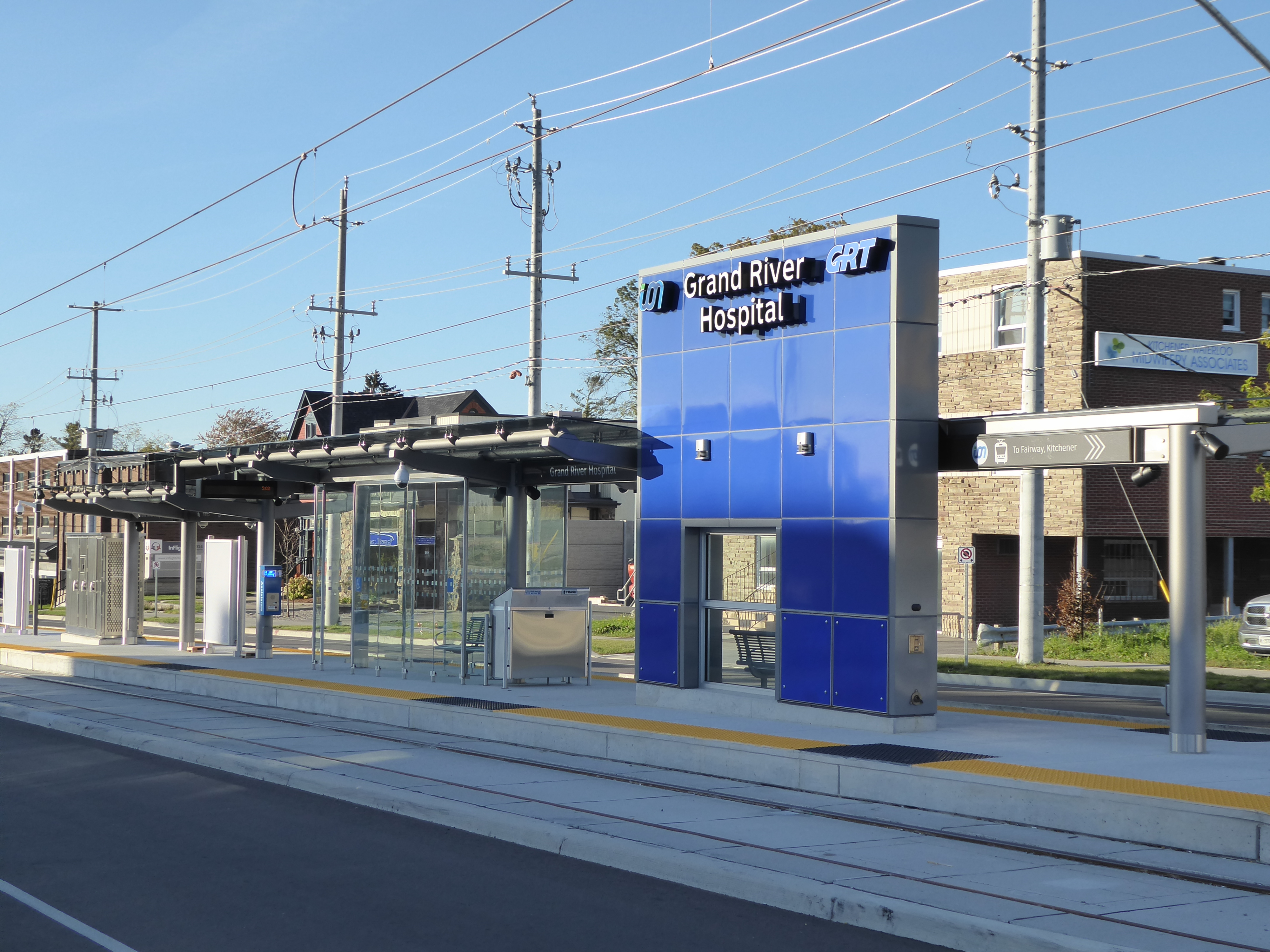 Grand River Hospital Station of the Ion rapid transit system, photographed structurally complete October 2017